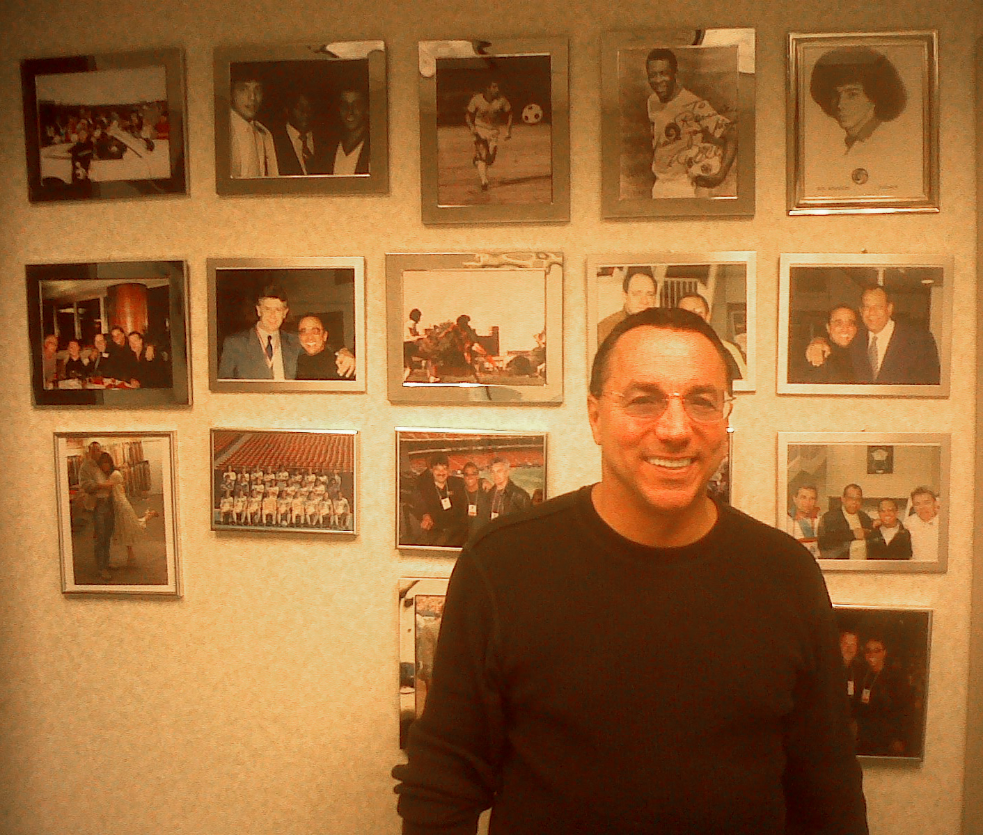 Ron (Ronnie) Atanasio, as of 12/7/2010